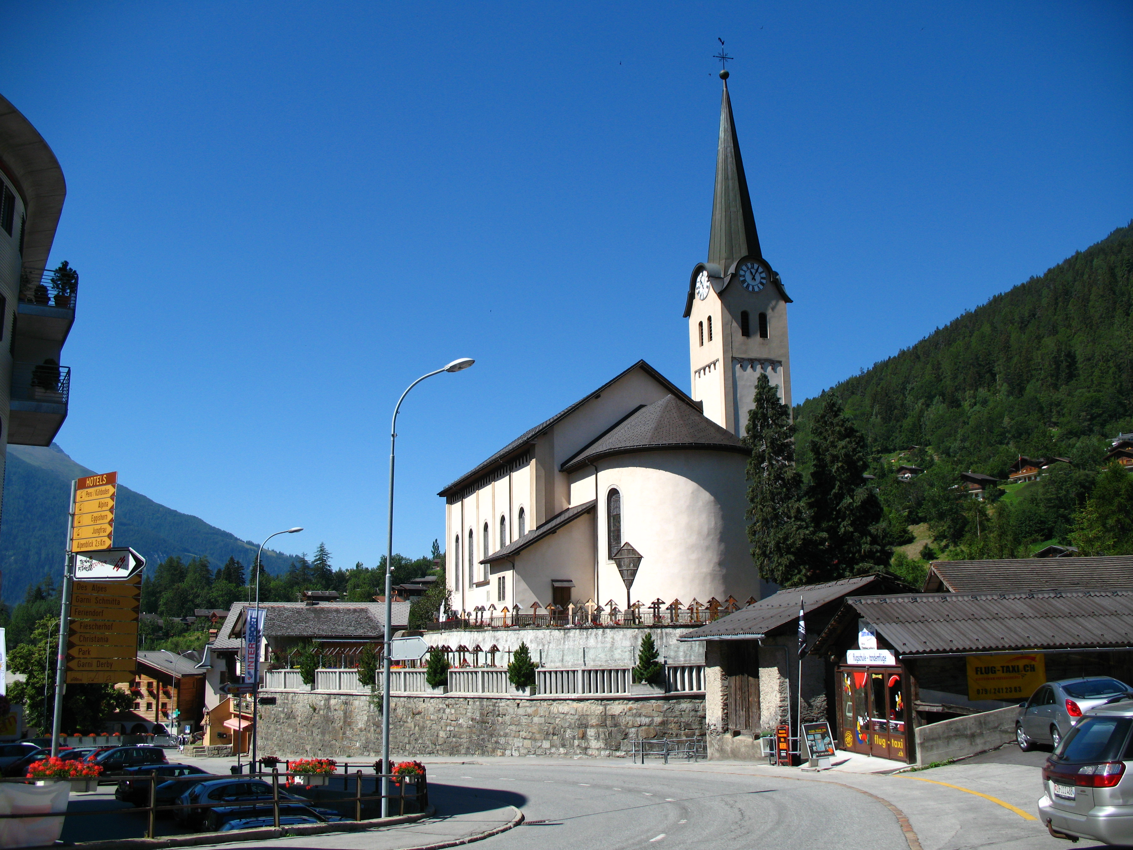 Village church, Fiesch, Switzerland